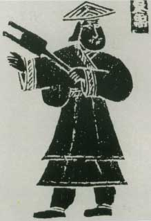 Yu, the Great, legendary Emperor